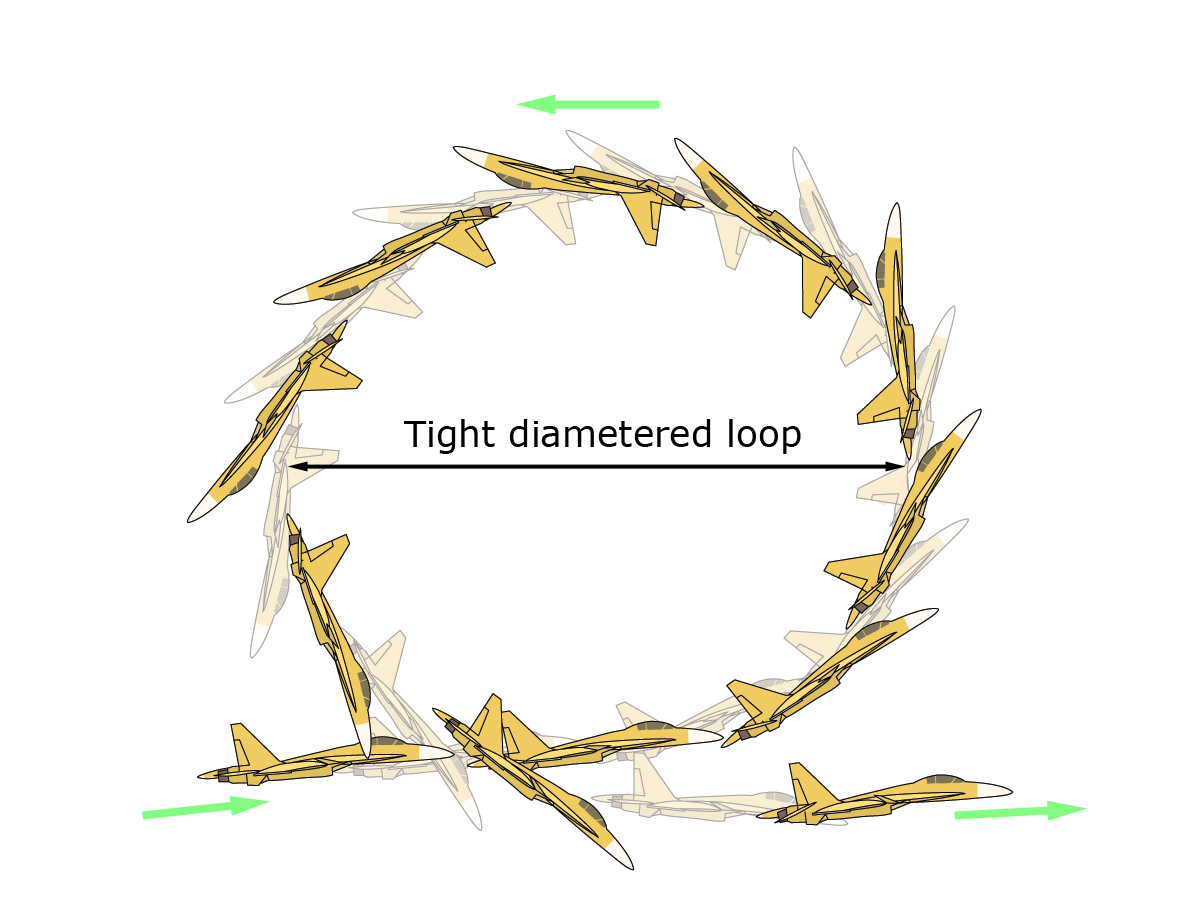 Kulbit ACM, as done by the Su-37 Flanker-F fighter jet (well, not exactly) Comments welcome (please use Discussion page) Author: Henrickson Programs used: Adobe Illustrator CS, Adobe Photoshop CS